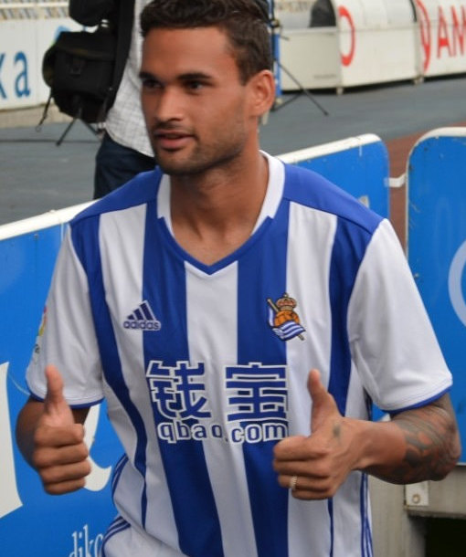 Willian Jose at his official presentation as Real Sociedad player in 2016